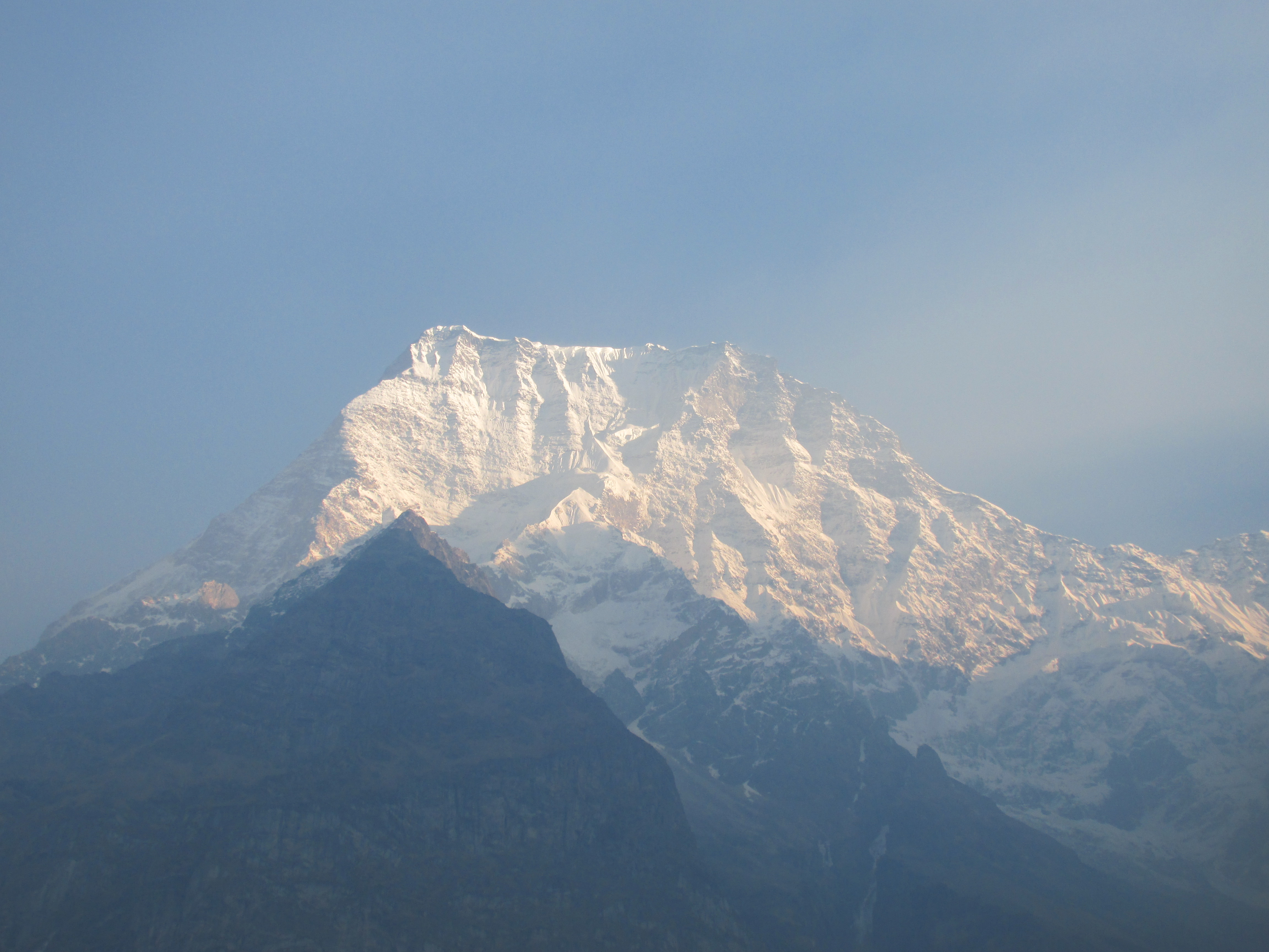 Api south face in Nepal